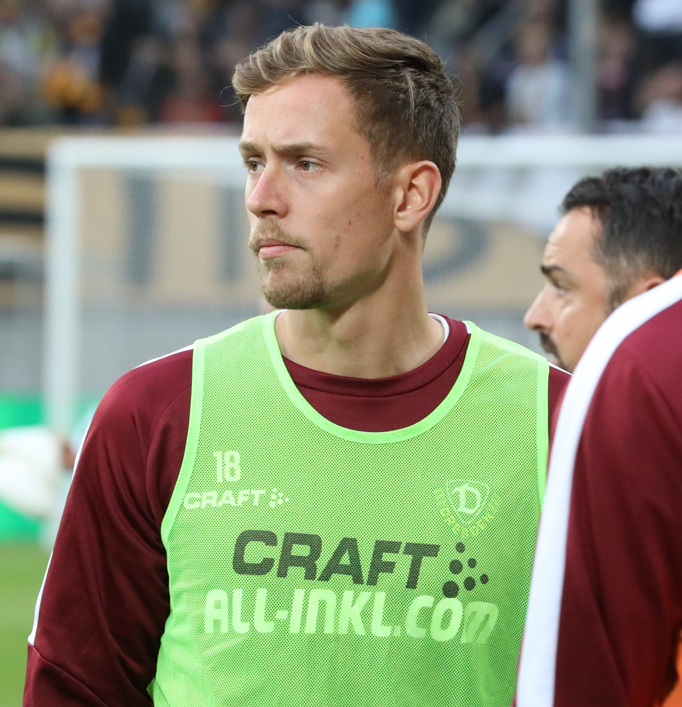 Test game, 17th July 2019: SG Dynamo Dresden vs. Paris Saint-Germain 1:6 (0:3)